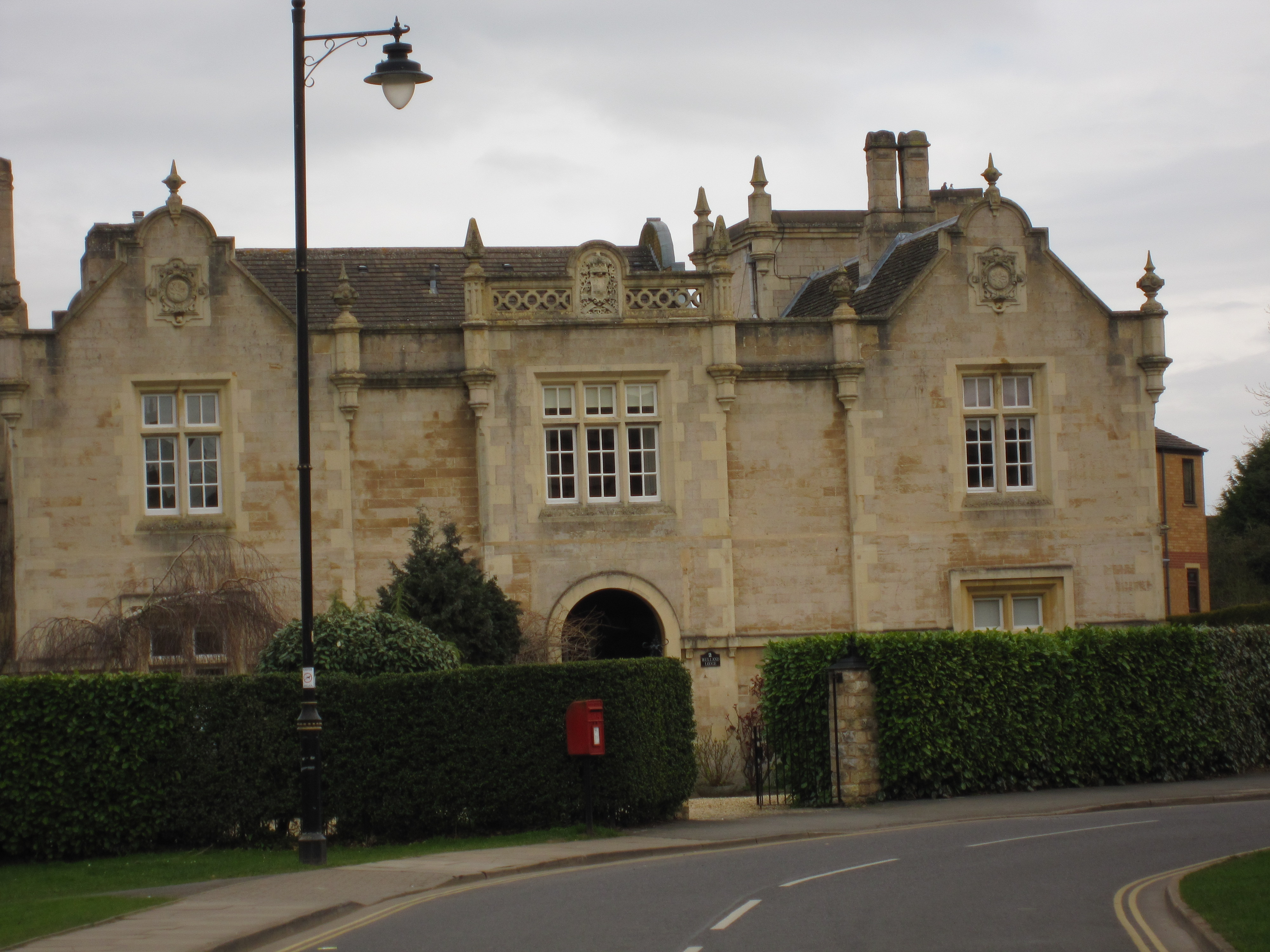 Site of Stamford East railway station - frontage from water street